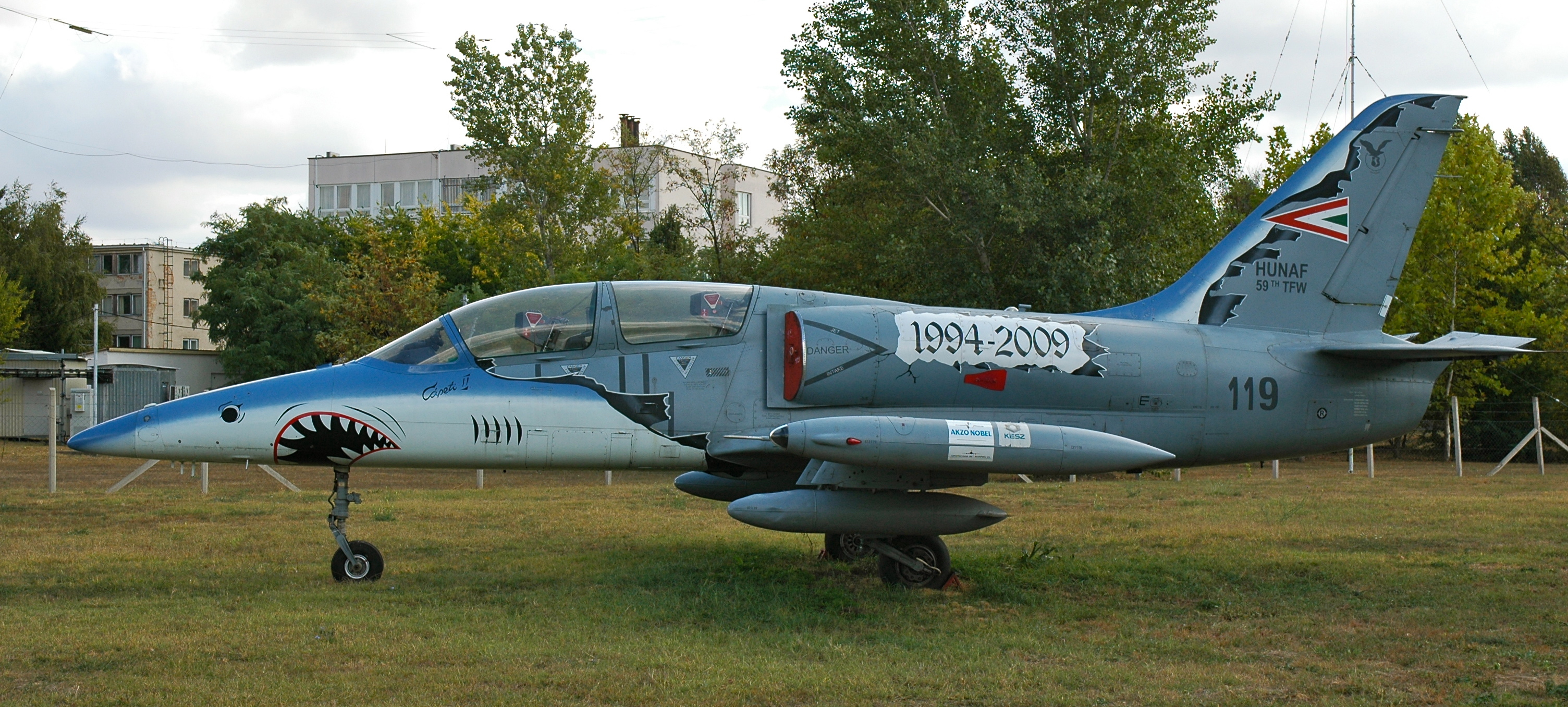 Aero L-39ZO Albatros of Hungarian Air Force, displayed at the Museum of Hungarian Aviation in Szolnok